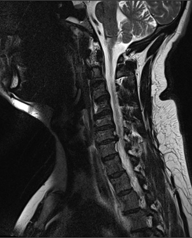 MRI Scan showing herniation of a cervical disc at C6-C7